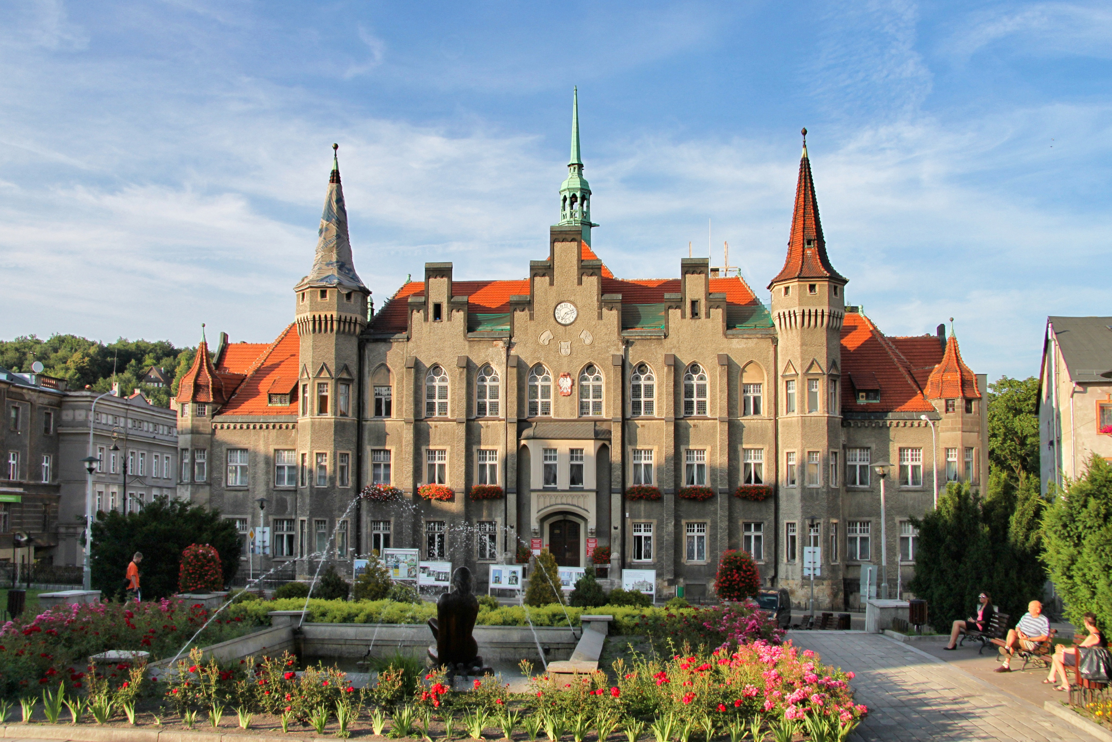 Town Hall in Wałbrzych.